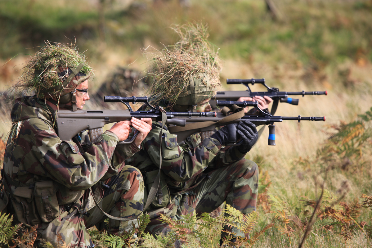 RDF Assessement Training Ex in Glen of Imal including avisit to troops by Maj Gen Ralph James DCOS ops